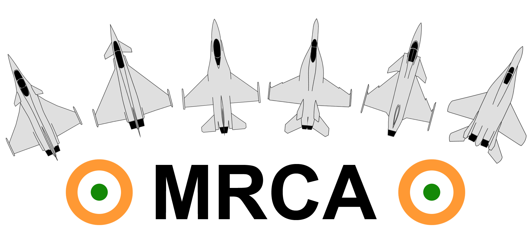 Note: NOT an official logo! The MRCA tender never had a logo; this is just for presentation only. Competitor aircraft in the Indian MRCA Competition. (L-R): Dassault Rafale, Eurofighter Typhoon, F-16 Fighting Falcon, F/A-18E/F Super Hornet, JAS 39 Gripen and Mikoyan MiG-35. Self-traced over 3-views from various sources found by Google search. Roundel is made using vector shapes. Illustrated in Adobe Photoshop CS.